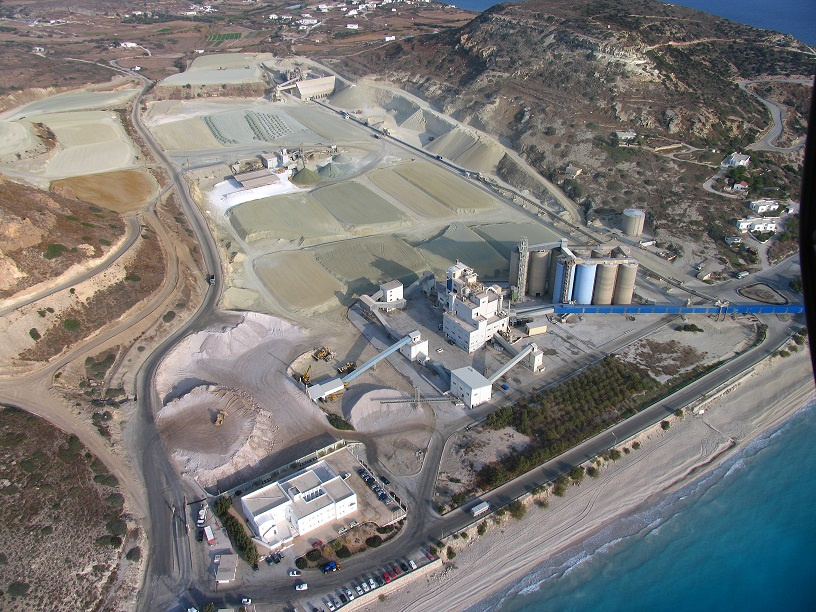 Industrial Minerals processing plant at Voudia Milos Greece